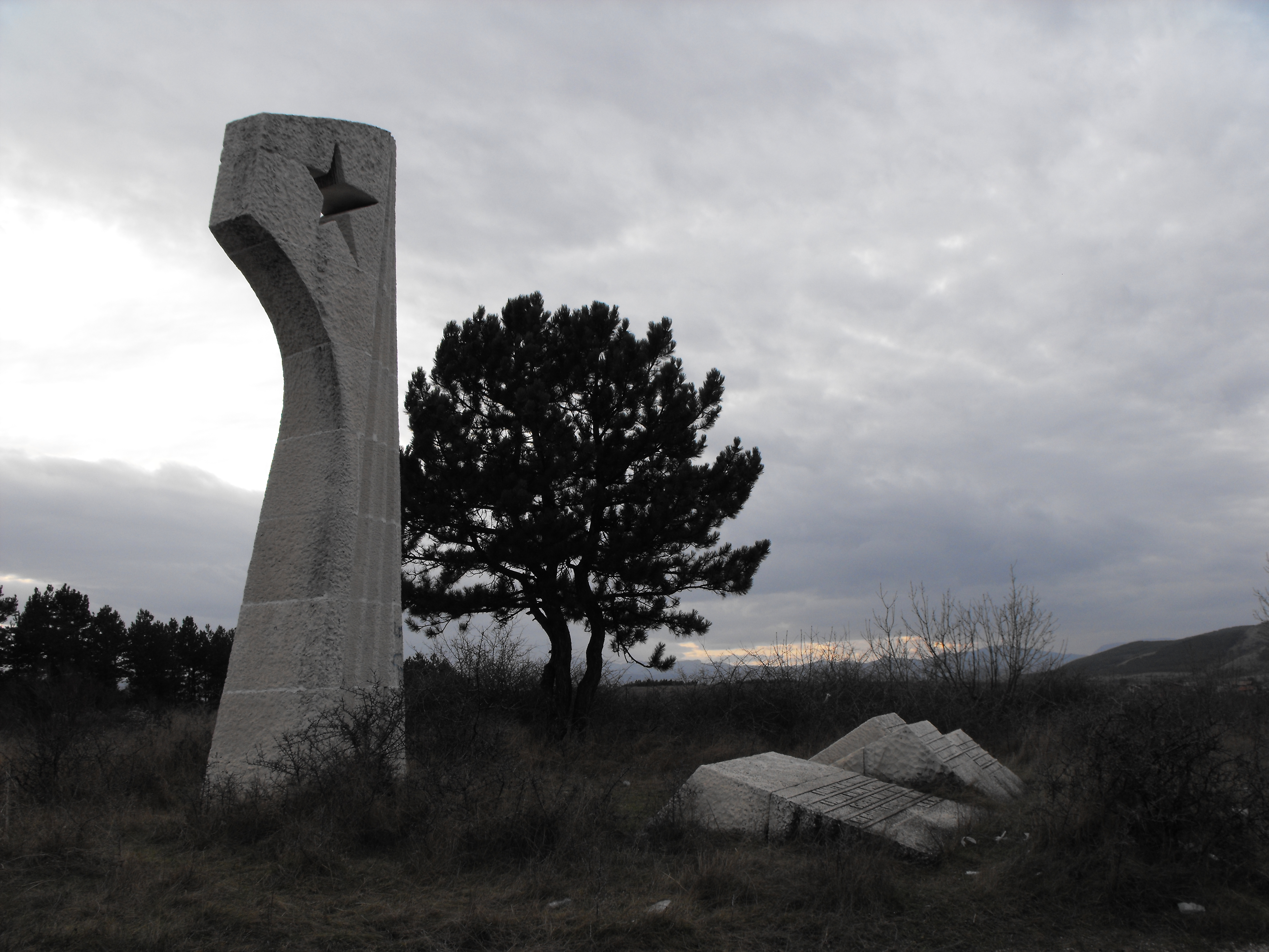 Russian millitary pilots memorial, death in WW2, Dragoman, Bulgaria